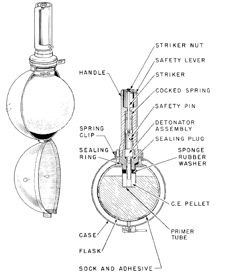 Diagram showing external and sectional view of British, Sticky Bomb